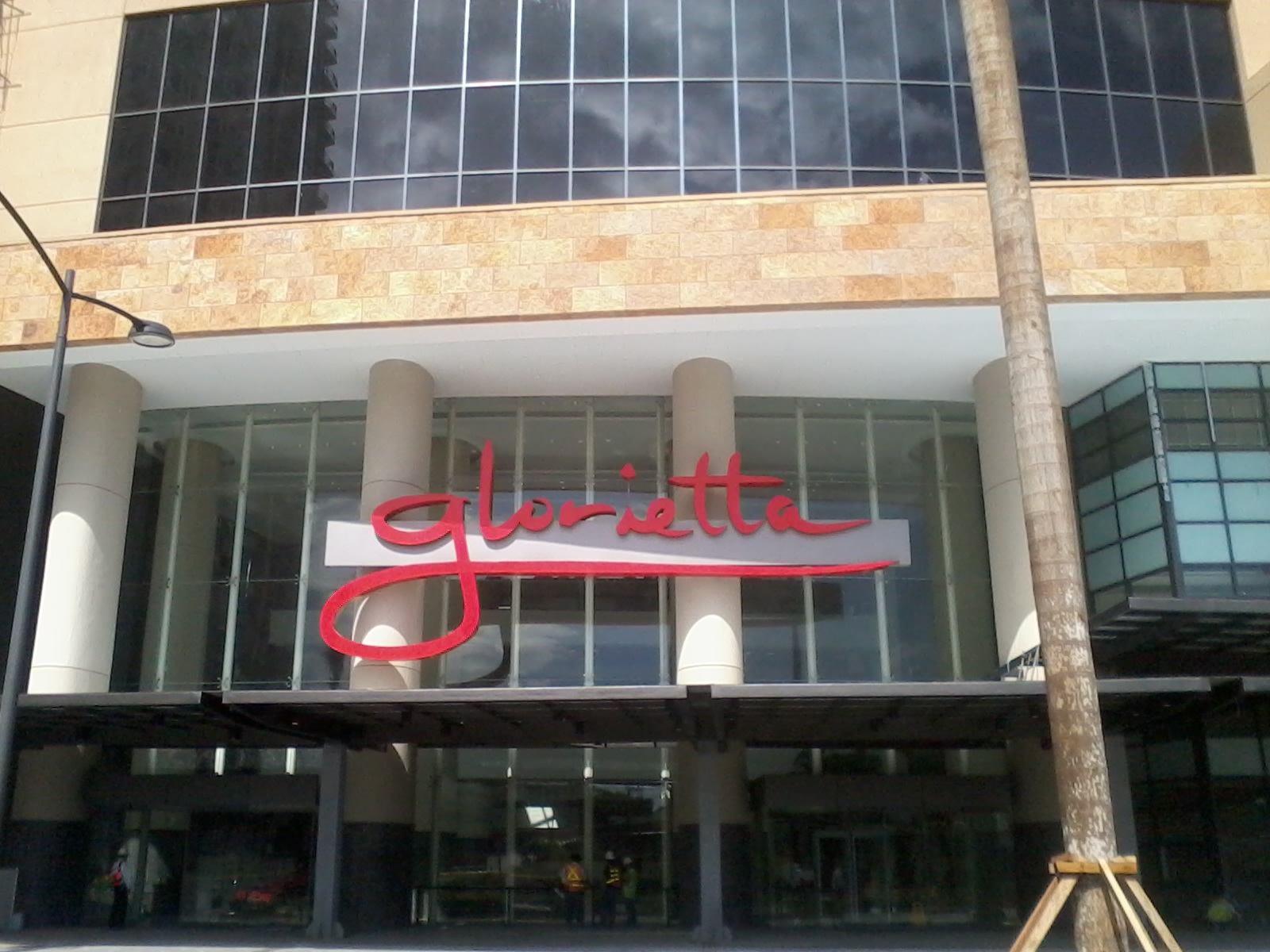 Facade of new Glorietta mall